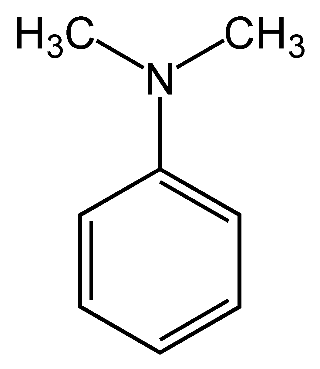 Chemical structure of Dimethylaniline. Drawn by Mysid in ChemDraw, on September 13, 2005. GFDL.